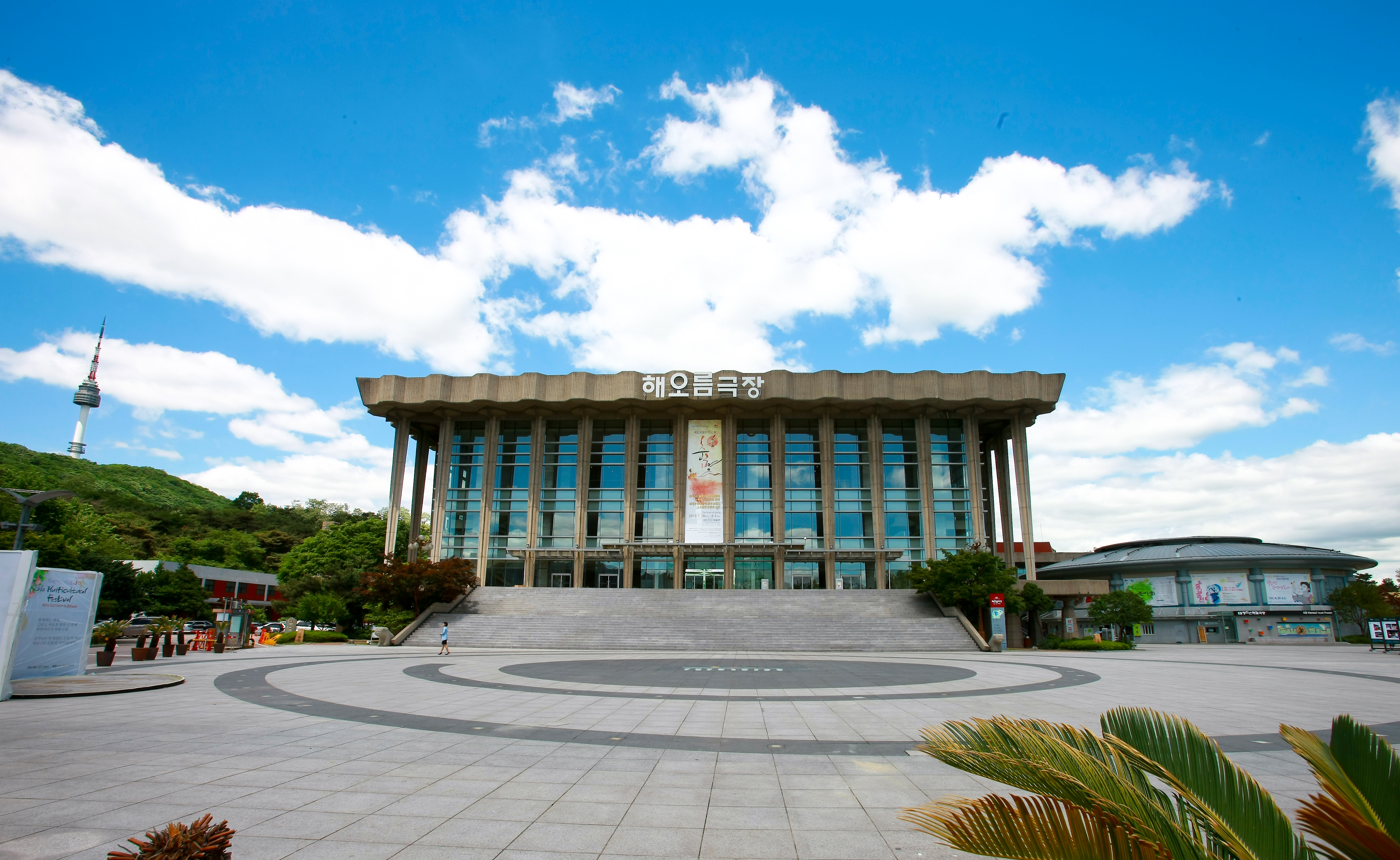 the National Theater of Korea